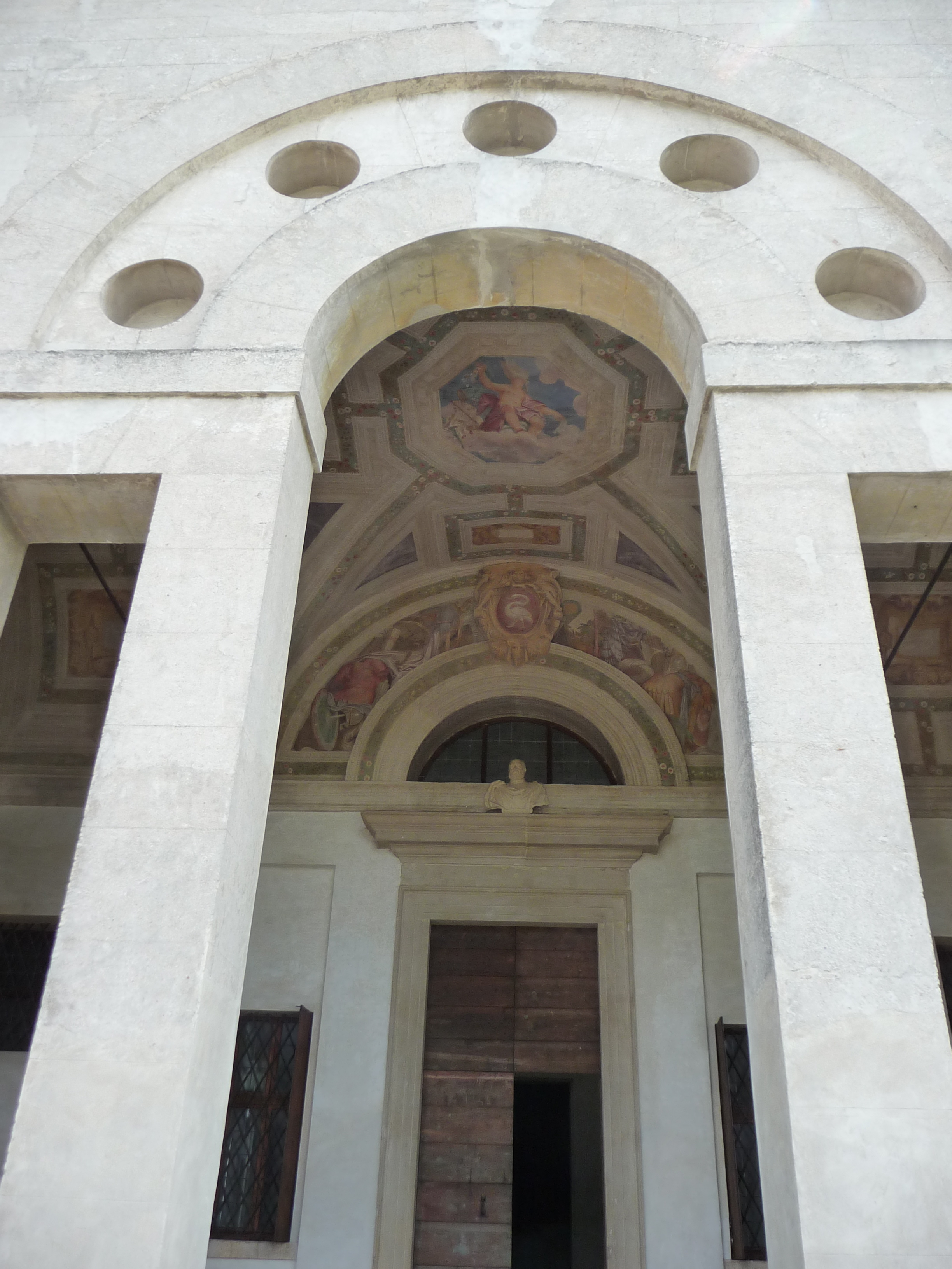 Villa Pojana is a patrician villa in Pojana Maggiore, a locality of the Veneto region of (northern Italy). It was designed by the Renaissance architect Andrea Palladio.